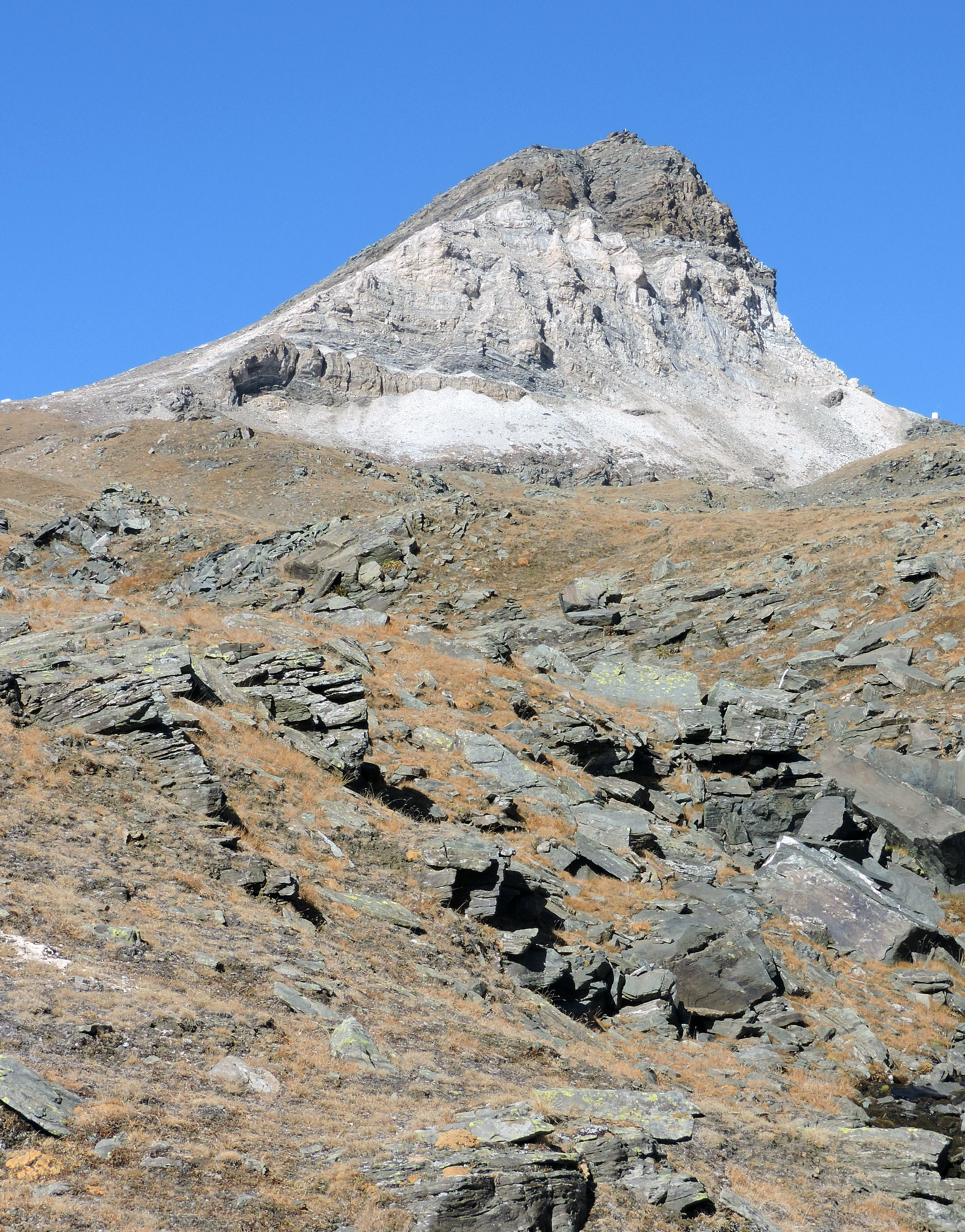 Gran Sometta (Aosta Valley) as seen from Val d Ayas